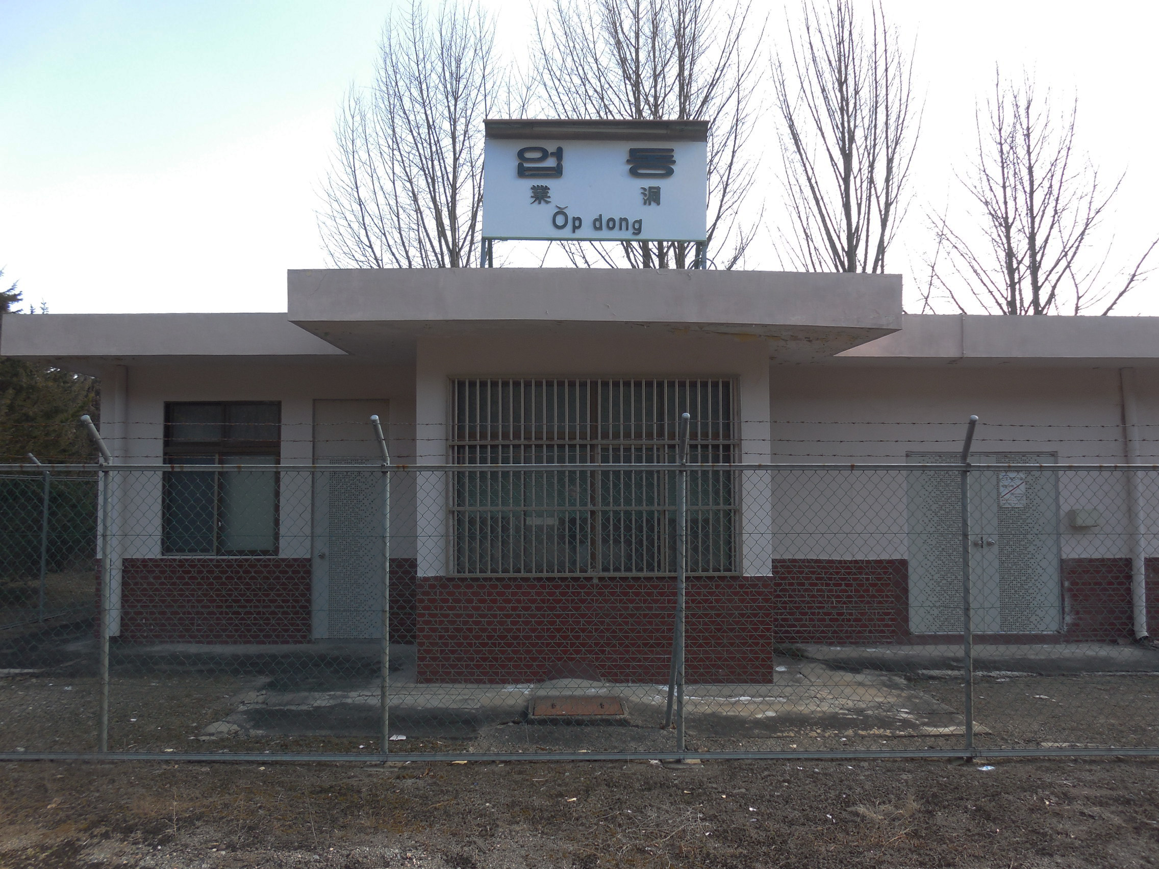 Korail Jungang Line Eopdong Station.